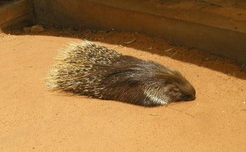 Hystrix indica in Israel Indian Porcupine in Israel